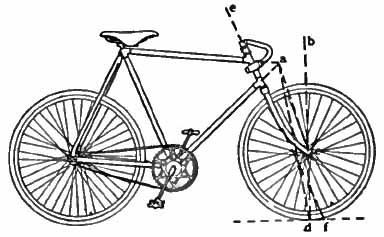 Line drawing of a road-race bicycle.